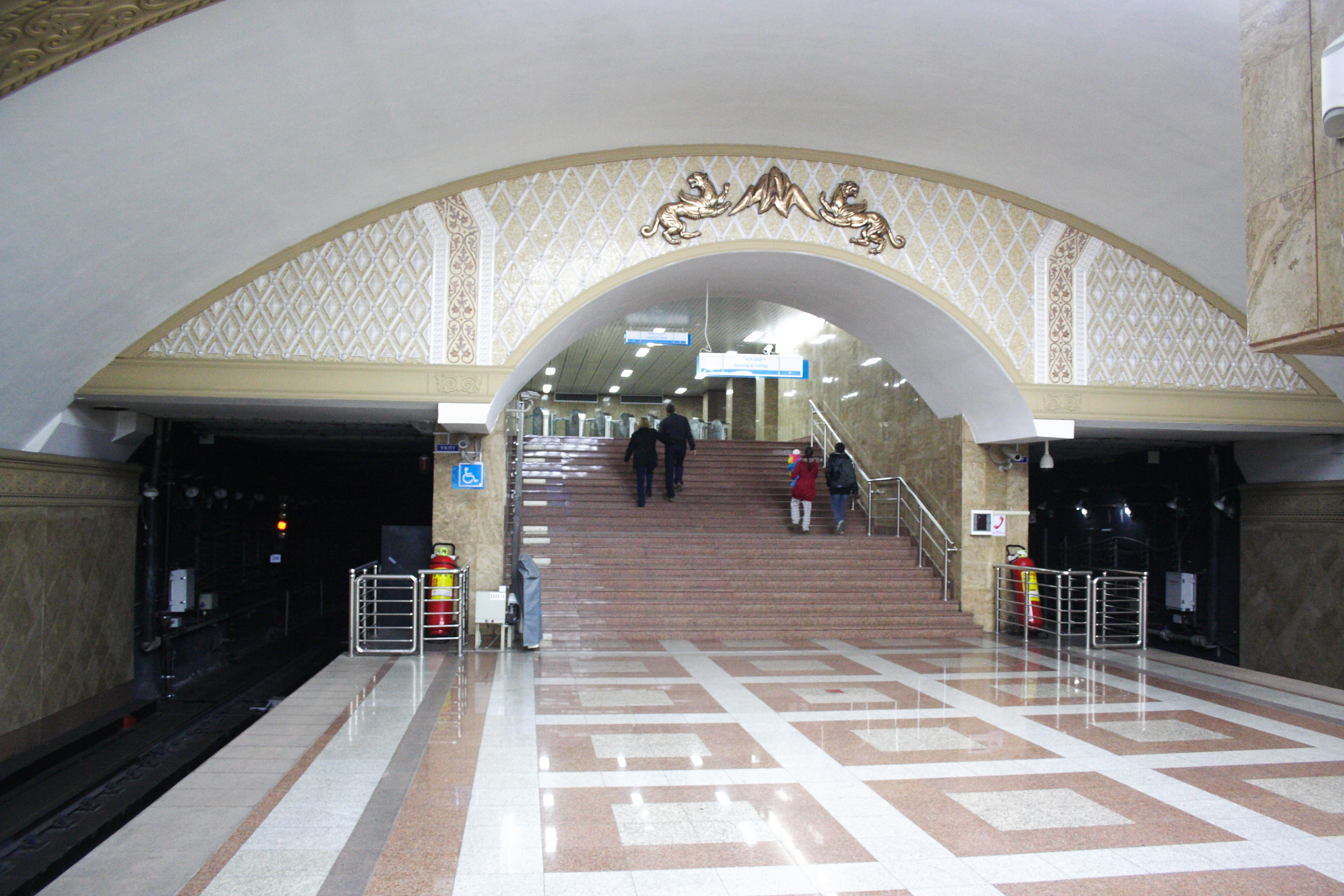 Almaty Metro, Raiymbek batyr Station